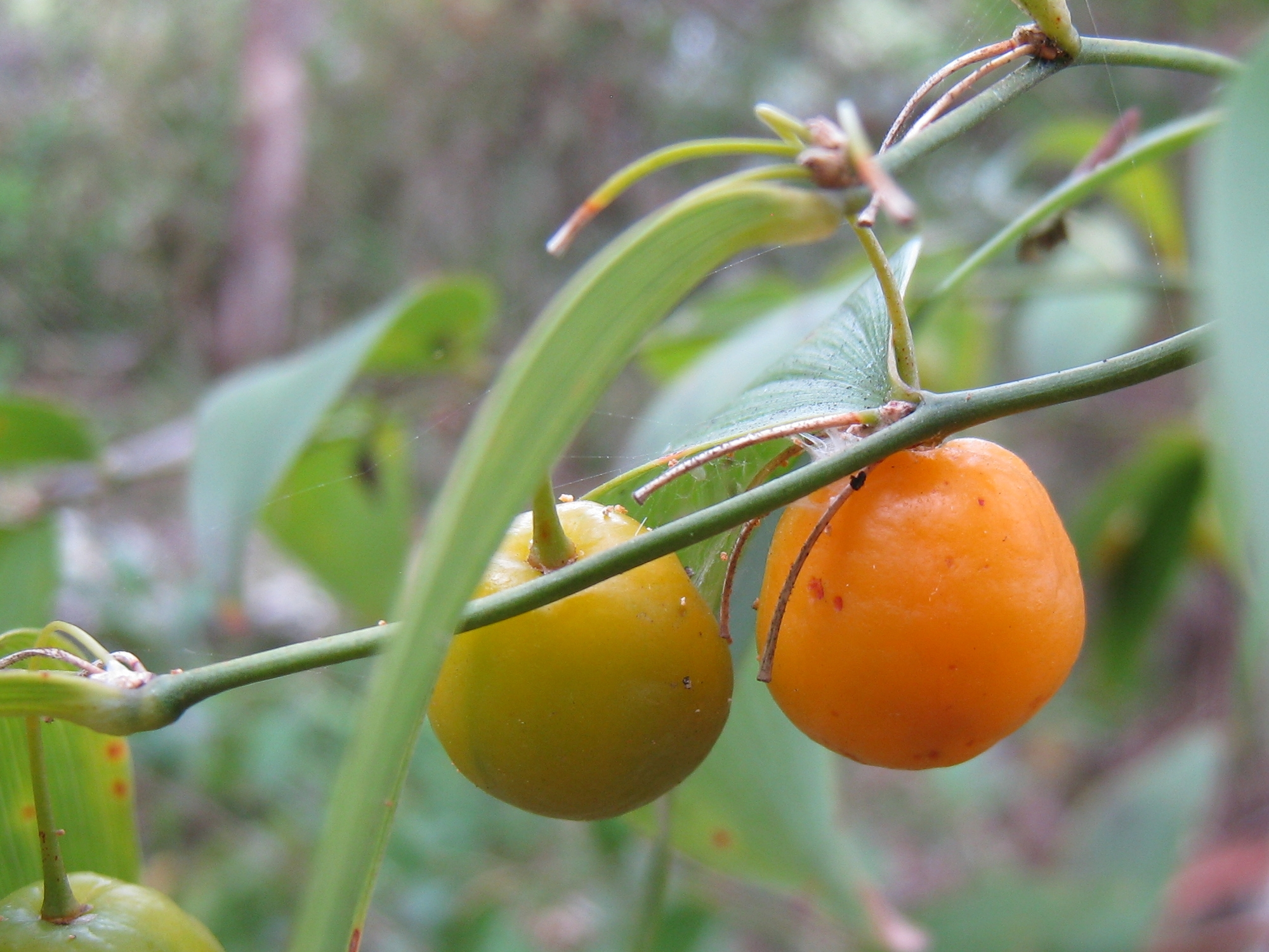 Eustrephus latifolius Paruna Reserve, Como NSW Australia, January 2011.